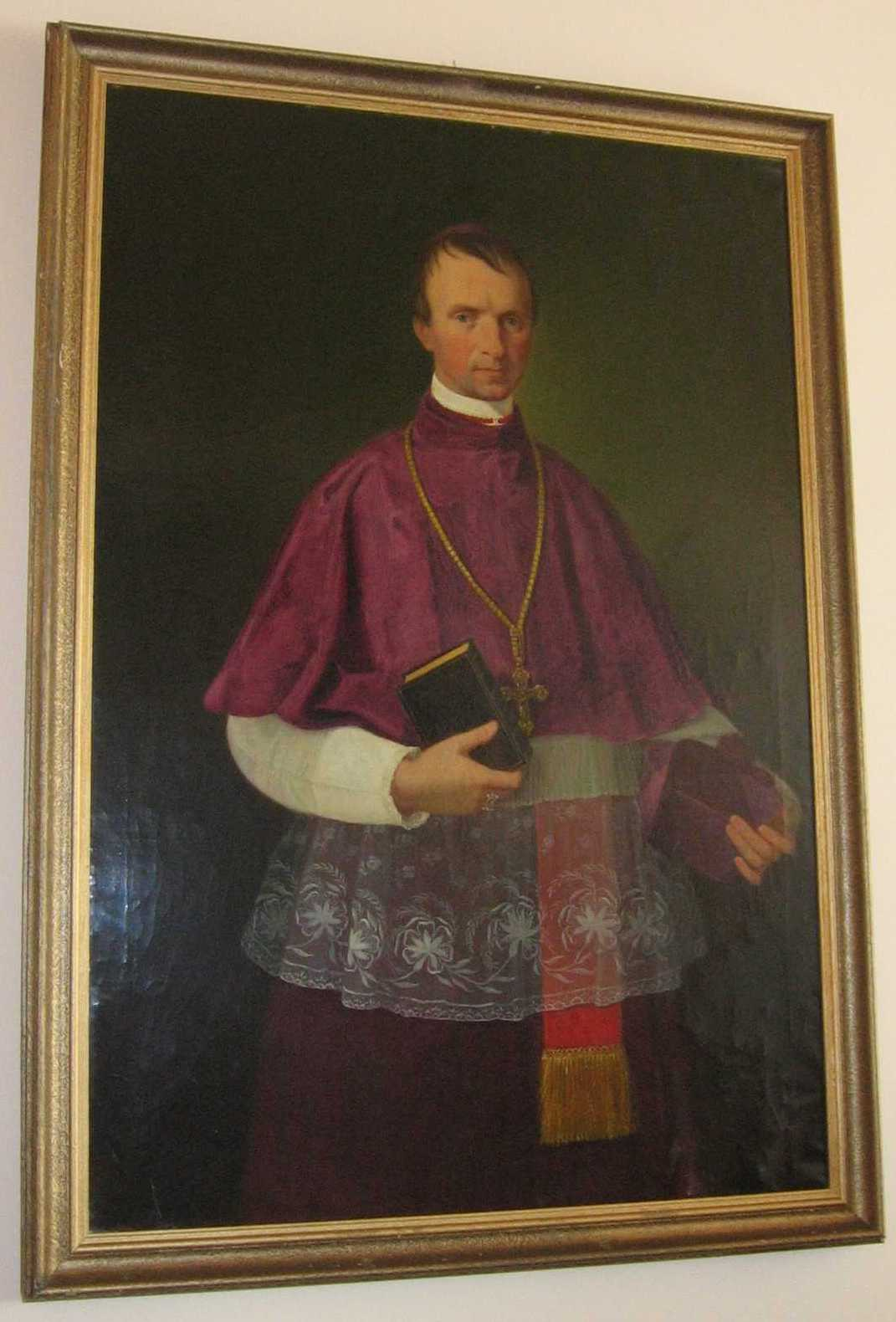 photography of one old picture of Slomšek made round 1860